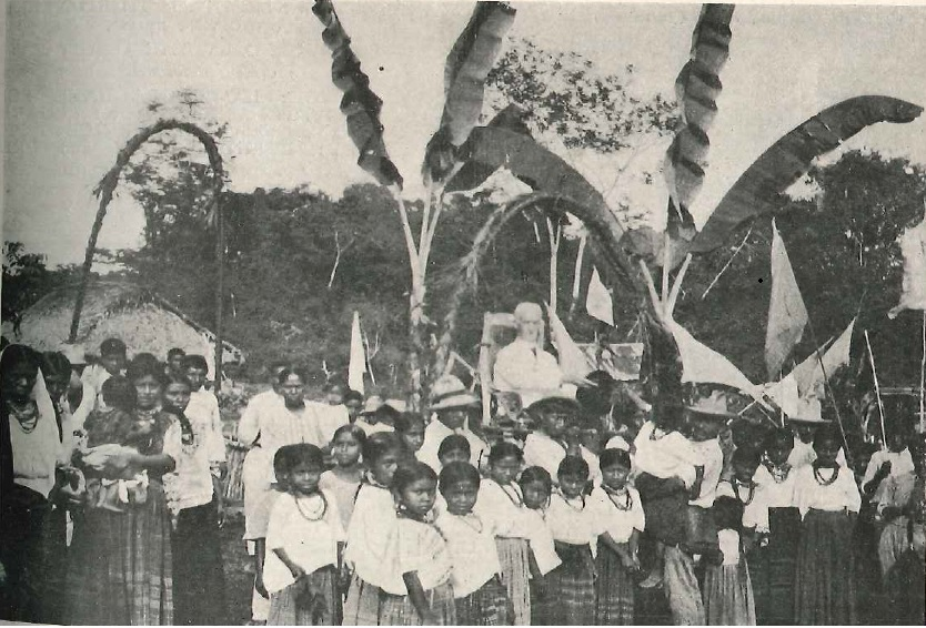 Bishop Joseph A. Murphy entering Maya village in Toledo District, Belize